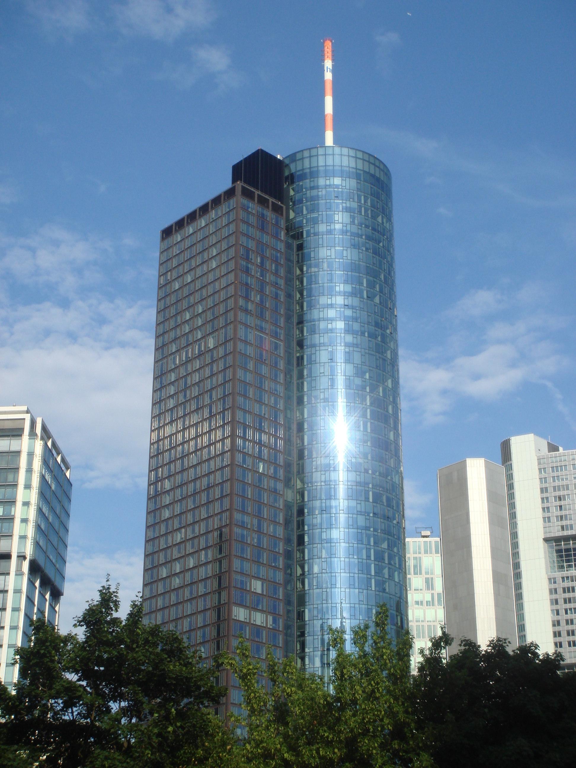 Maintower, in Frankfurt am Main.